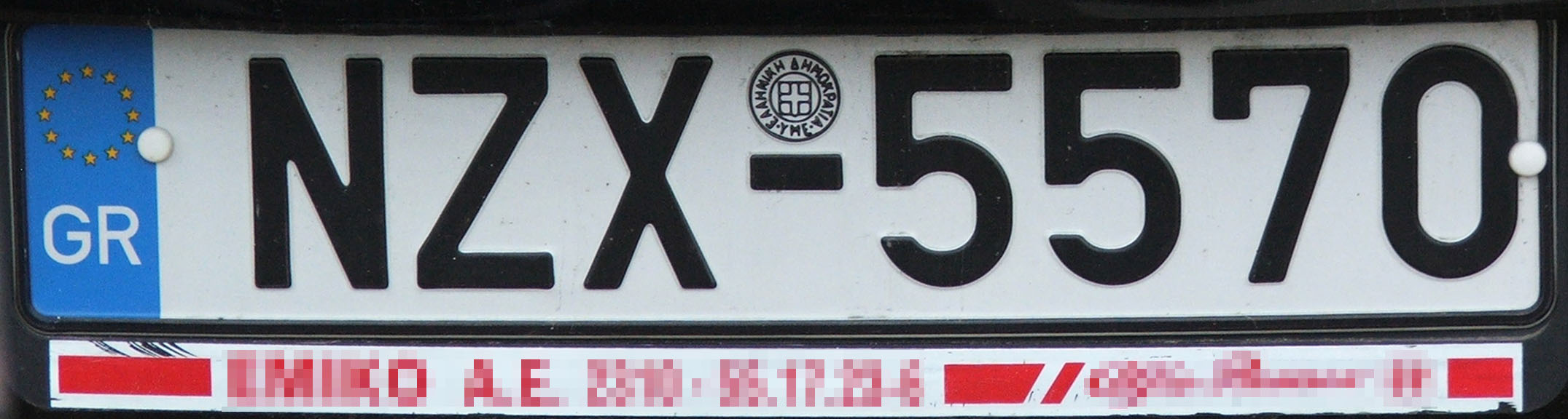 Vehicle licence plate from Greece as seen in 2008.